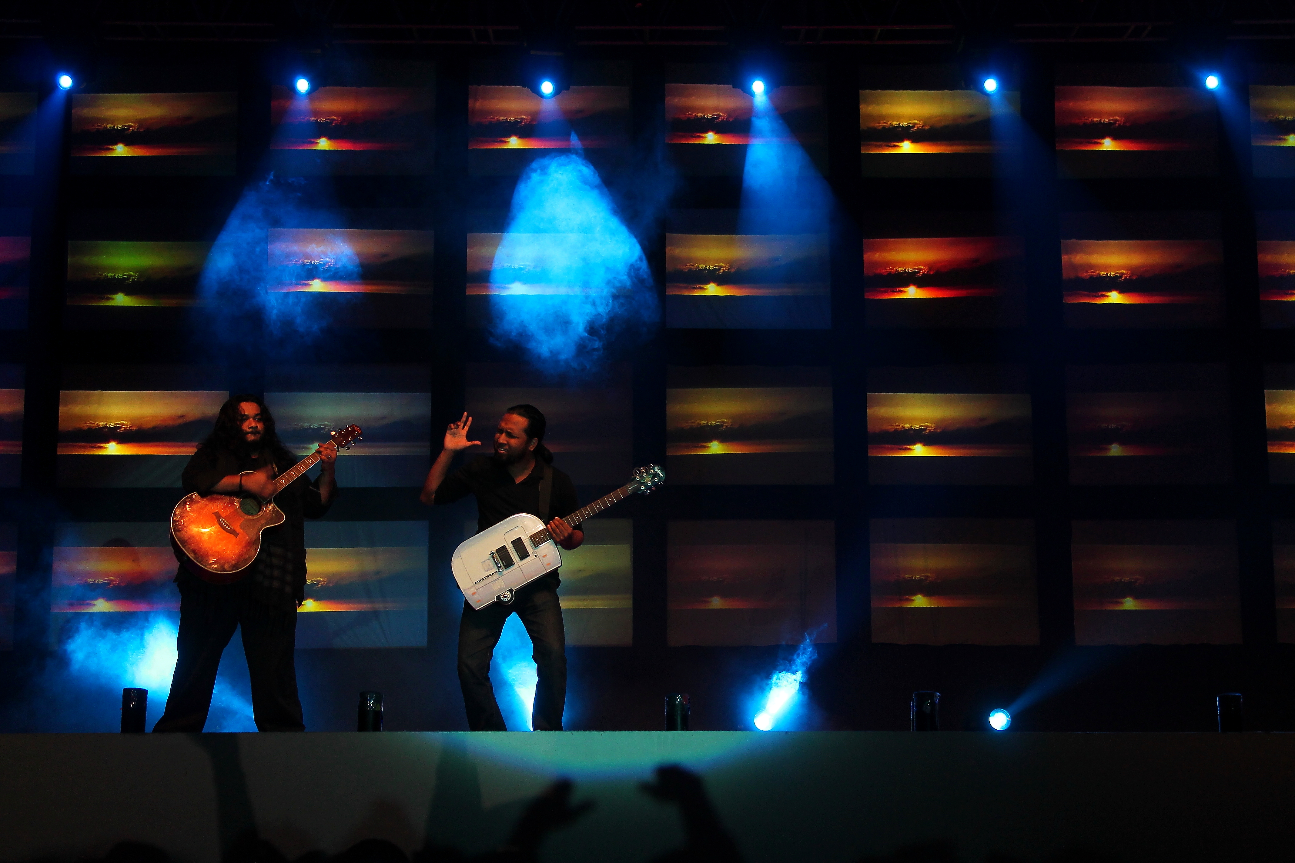 Rhythm of Life Jubair Bin Iqbal